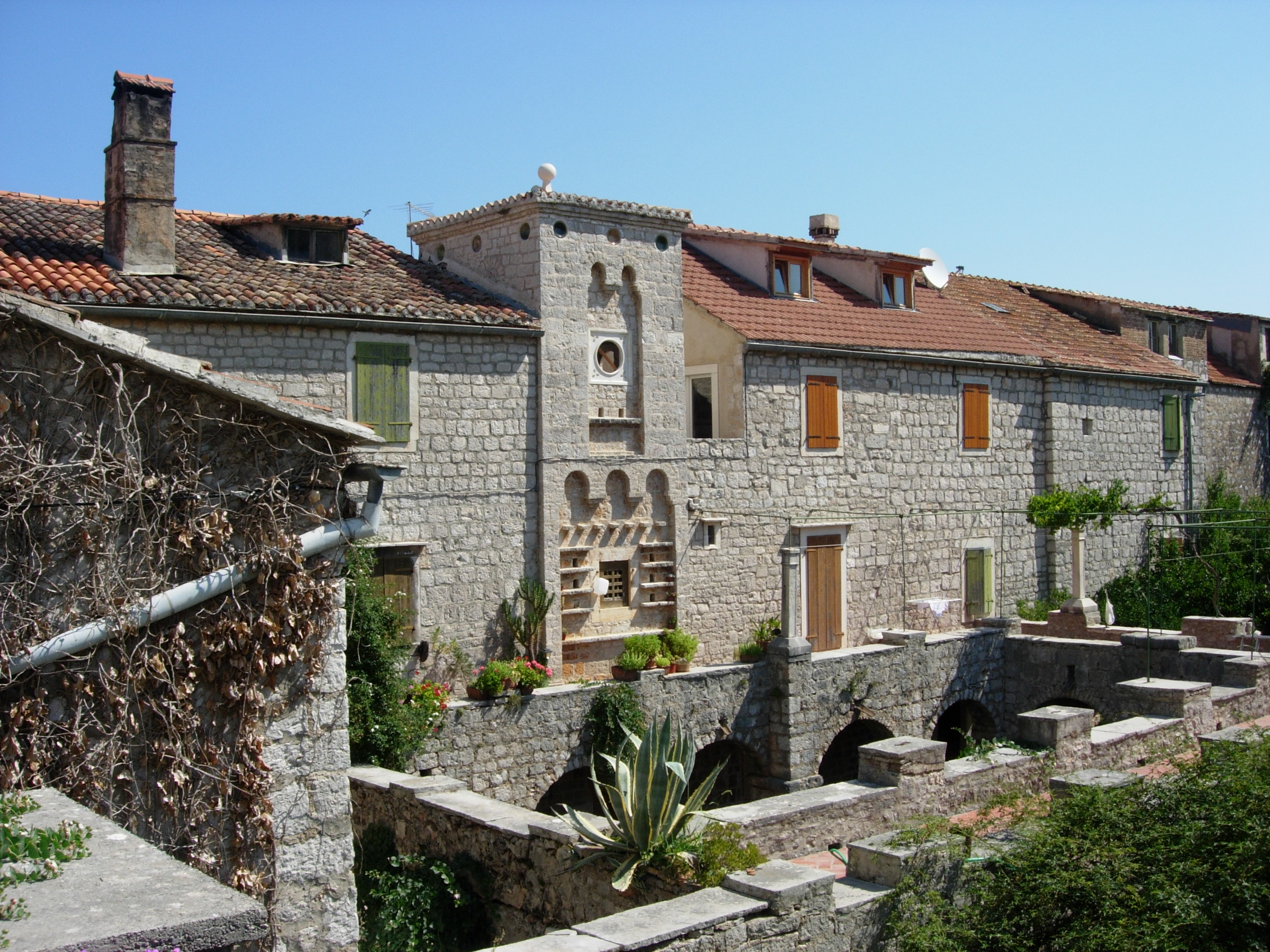 Tvrdalj of Petar Hektorović, Stari Grad, front.